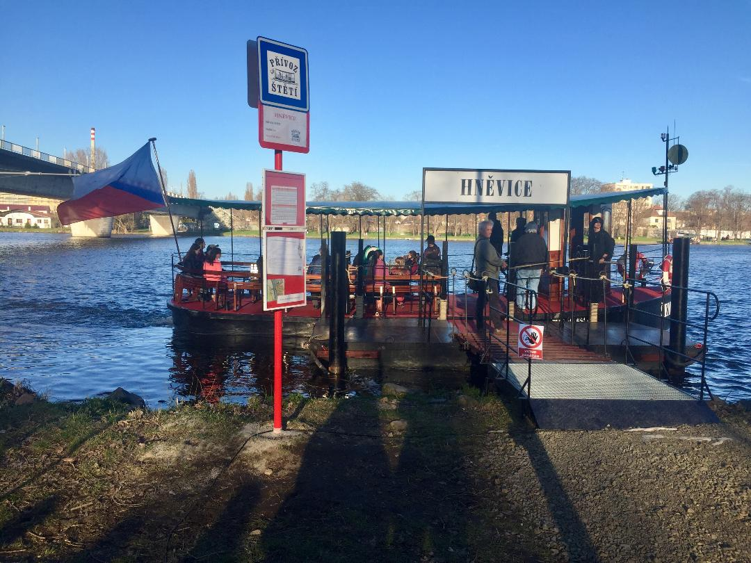 Cruisers in Štětí